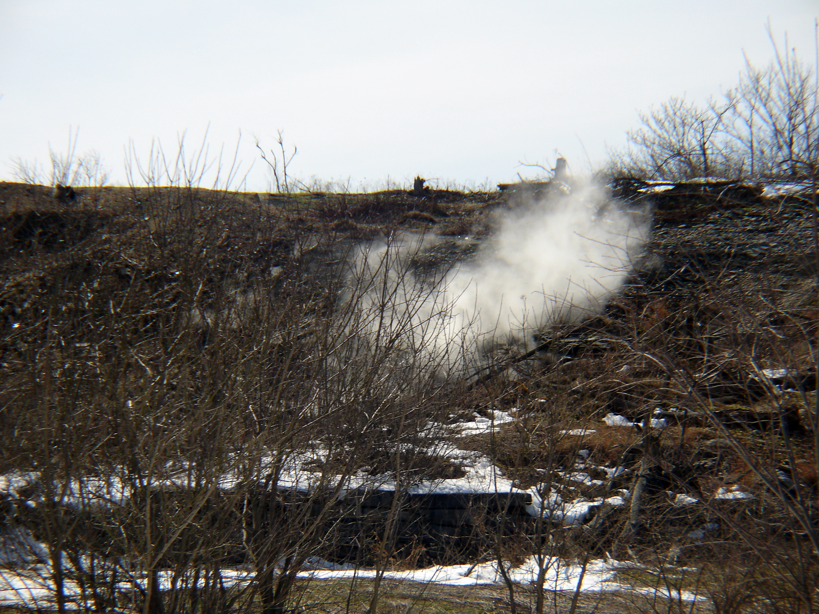 A plume of smoke wafts from the ground in Centralia, Pennsylvania, site of an underground coal seam fire.